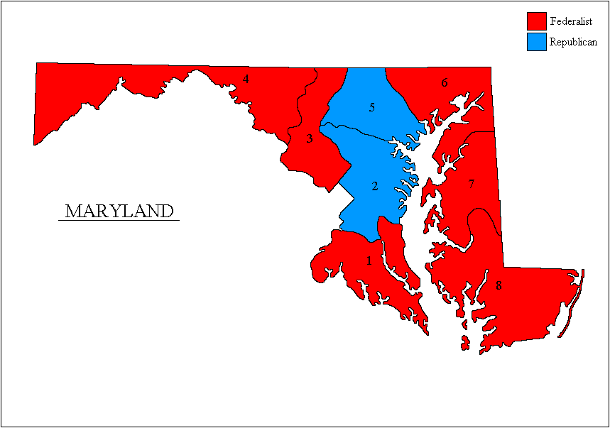 Congressional district map of Maryland for the 5th Congress, 1796